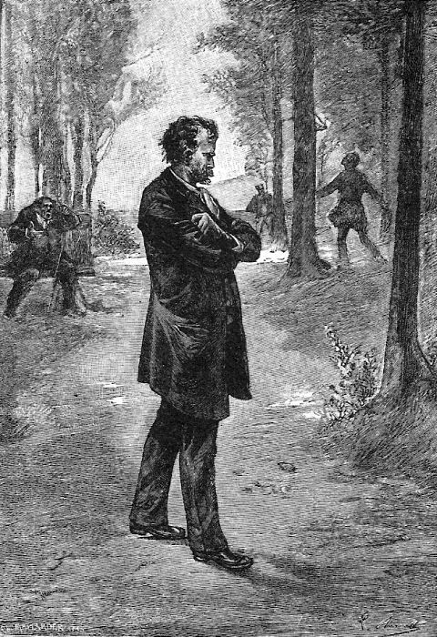 An illustration from Jules Verne's novel "Facing the Flag" (or "For the Flag").